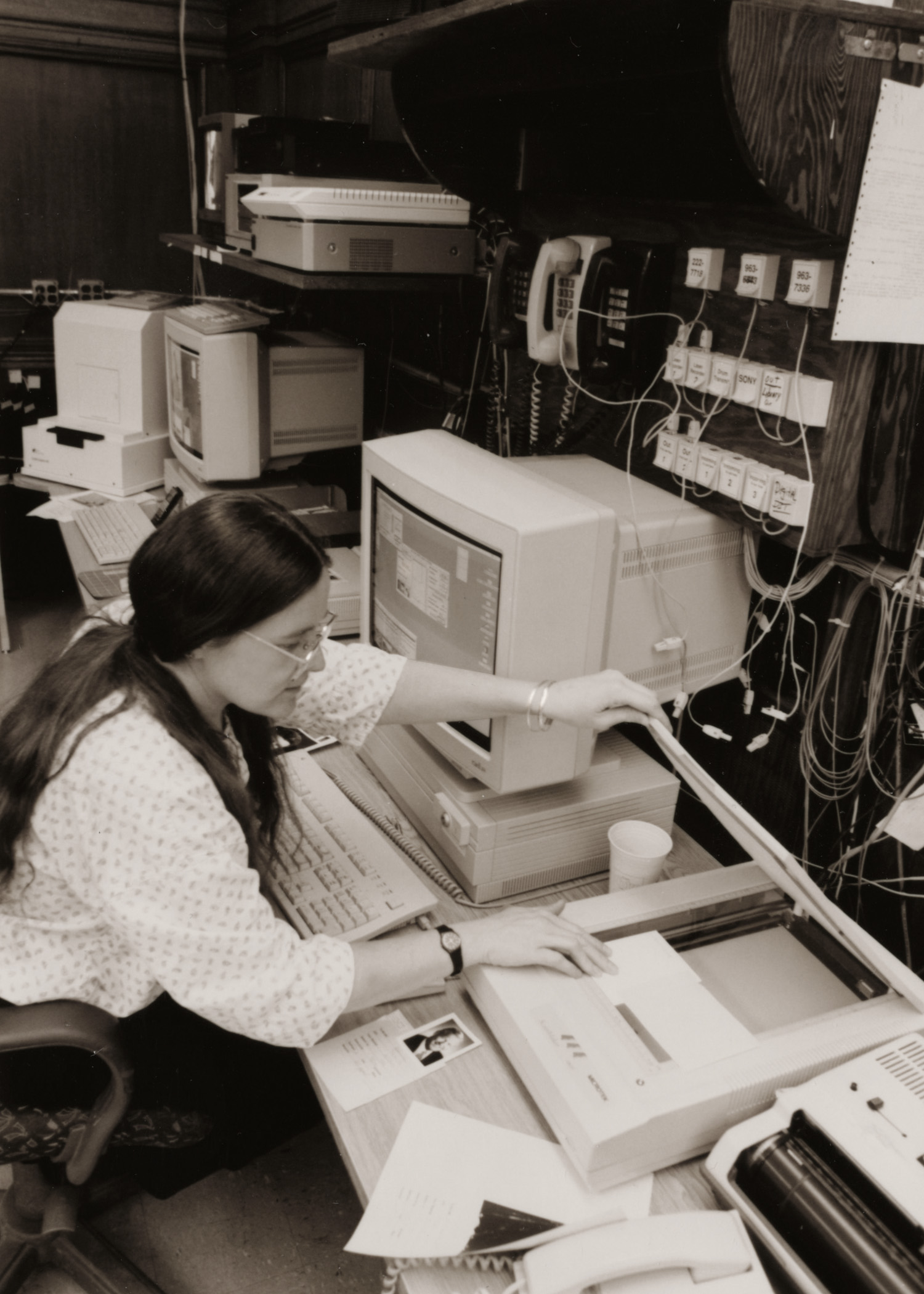 Photo desk at The Detroit News, about 1993. When digital photos were a novelty and PhotoShop 2.0 was edgy. Oh, yes, and in those days, Detroit newspapers published a print edition every day.